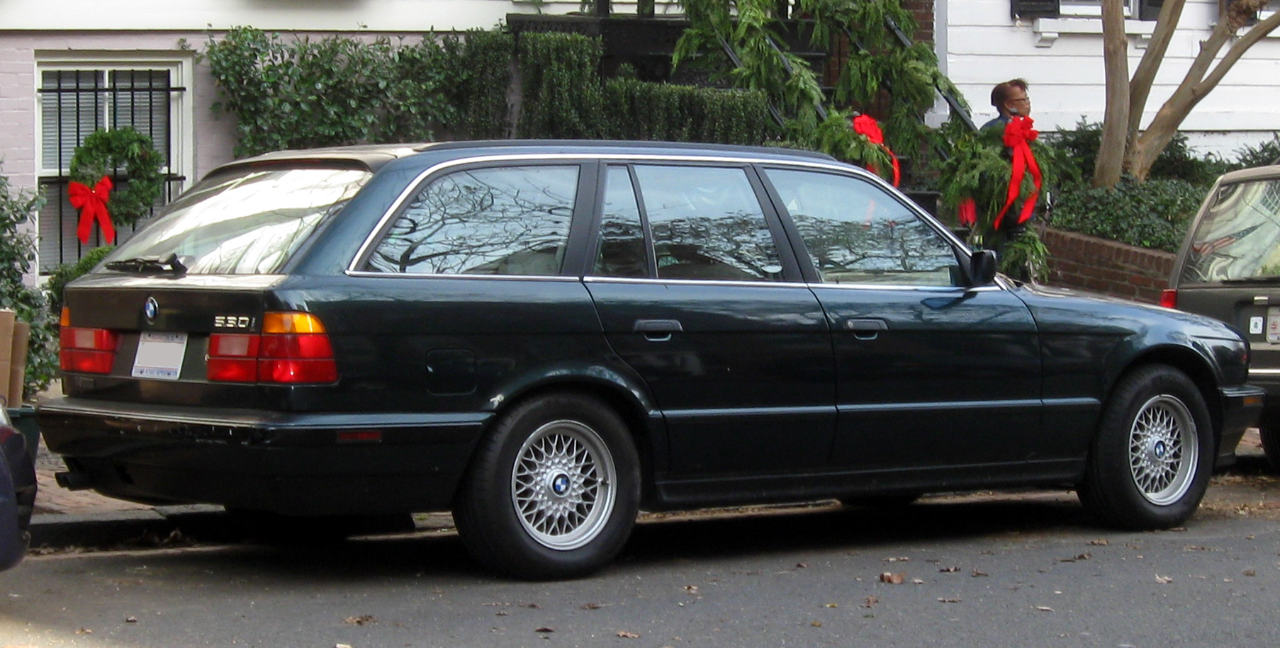 BMW 530i photographed in Washington, D.C., USA.